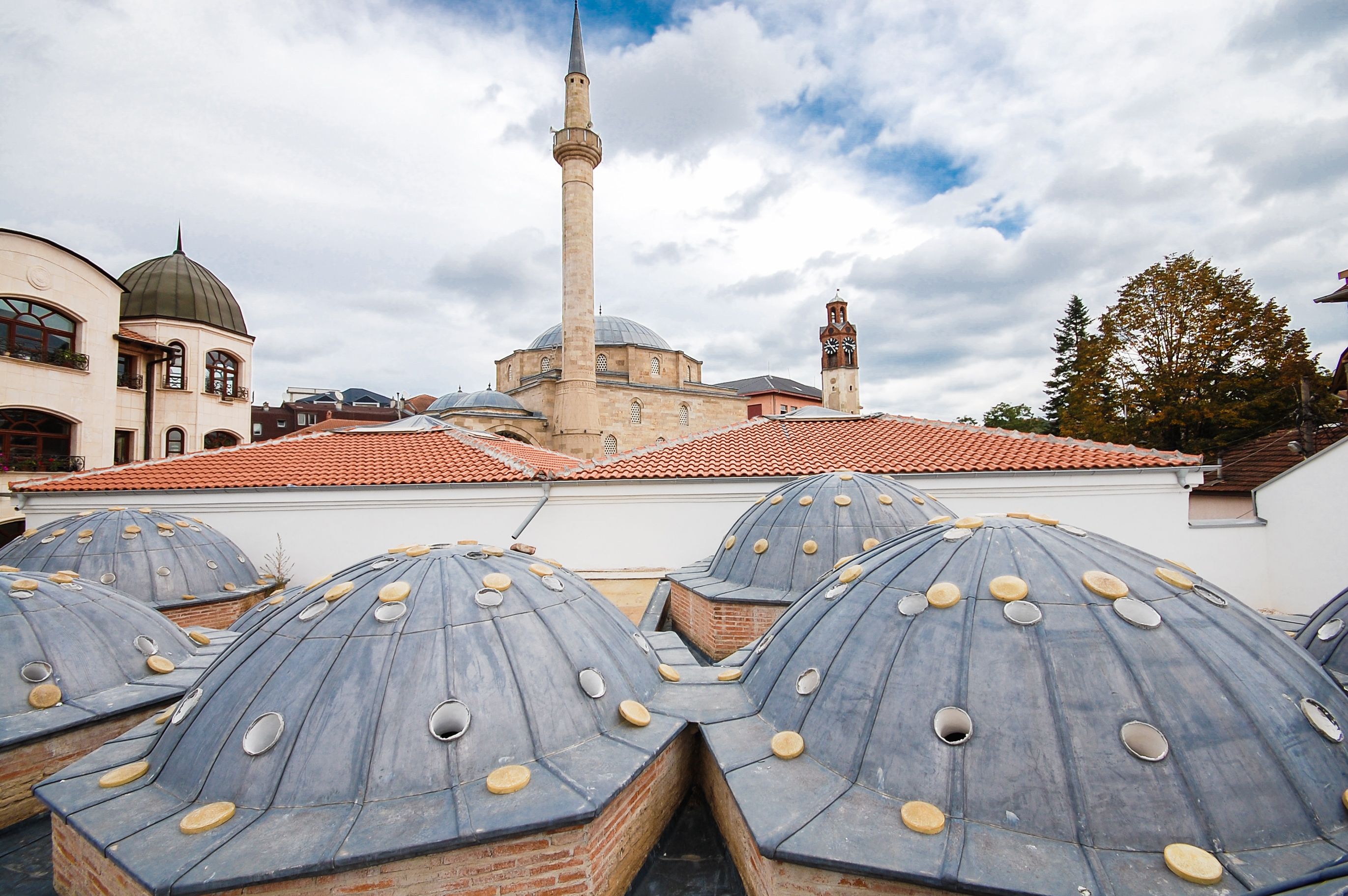 Prishtina and the great Hamam and the clock tower in background